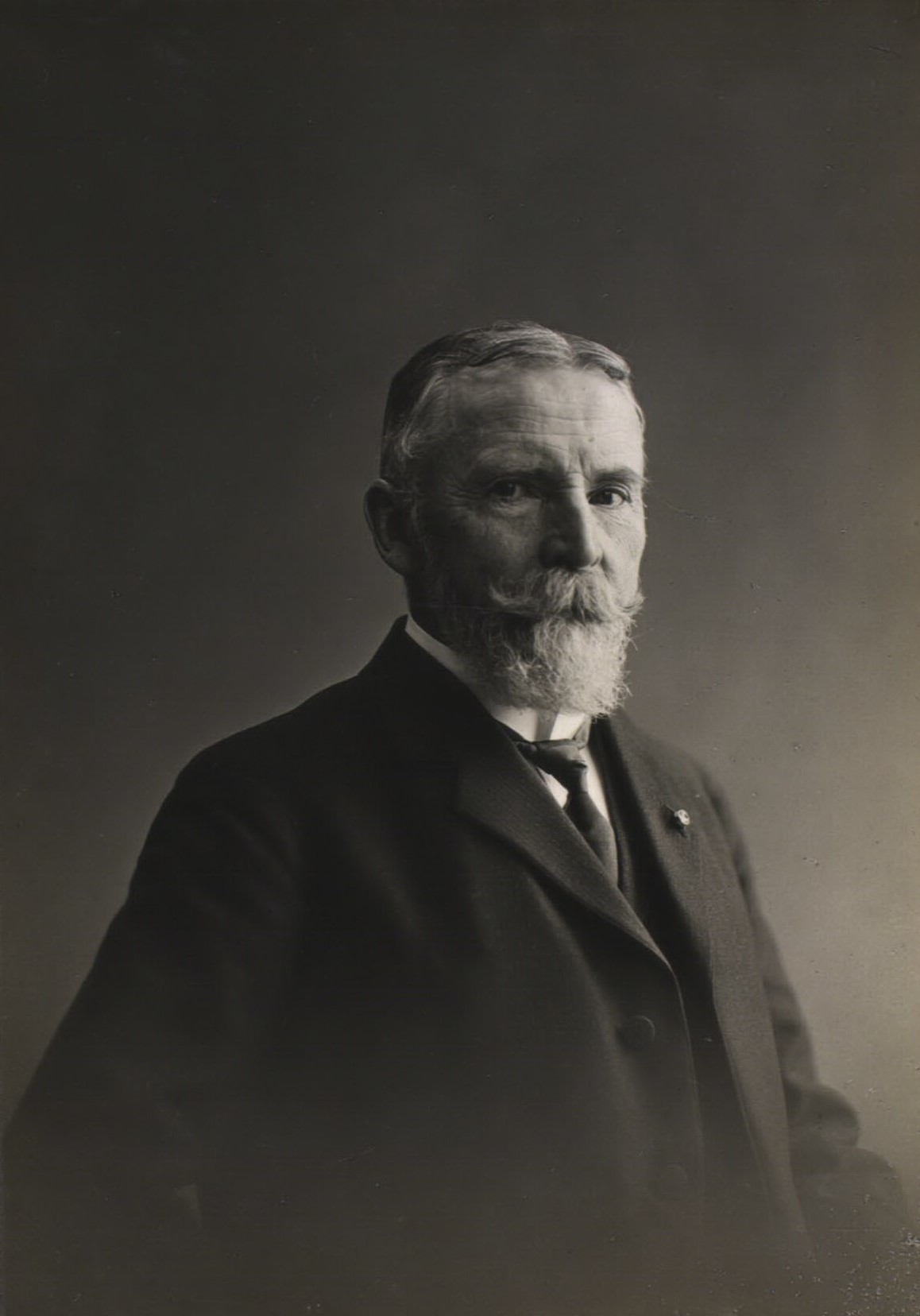 Danish politician, Minister of Defence, MP Christopher Krabbe (1833-1913)